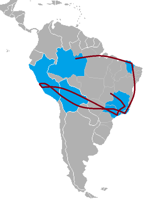 This map shows the locations visited during the show.